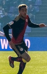 Real Valladolid - Rayo Vallecano, 18th fixture of the 2018-19 La Liga, January 5, 2019.